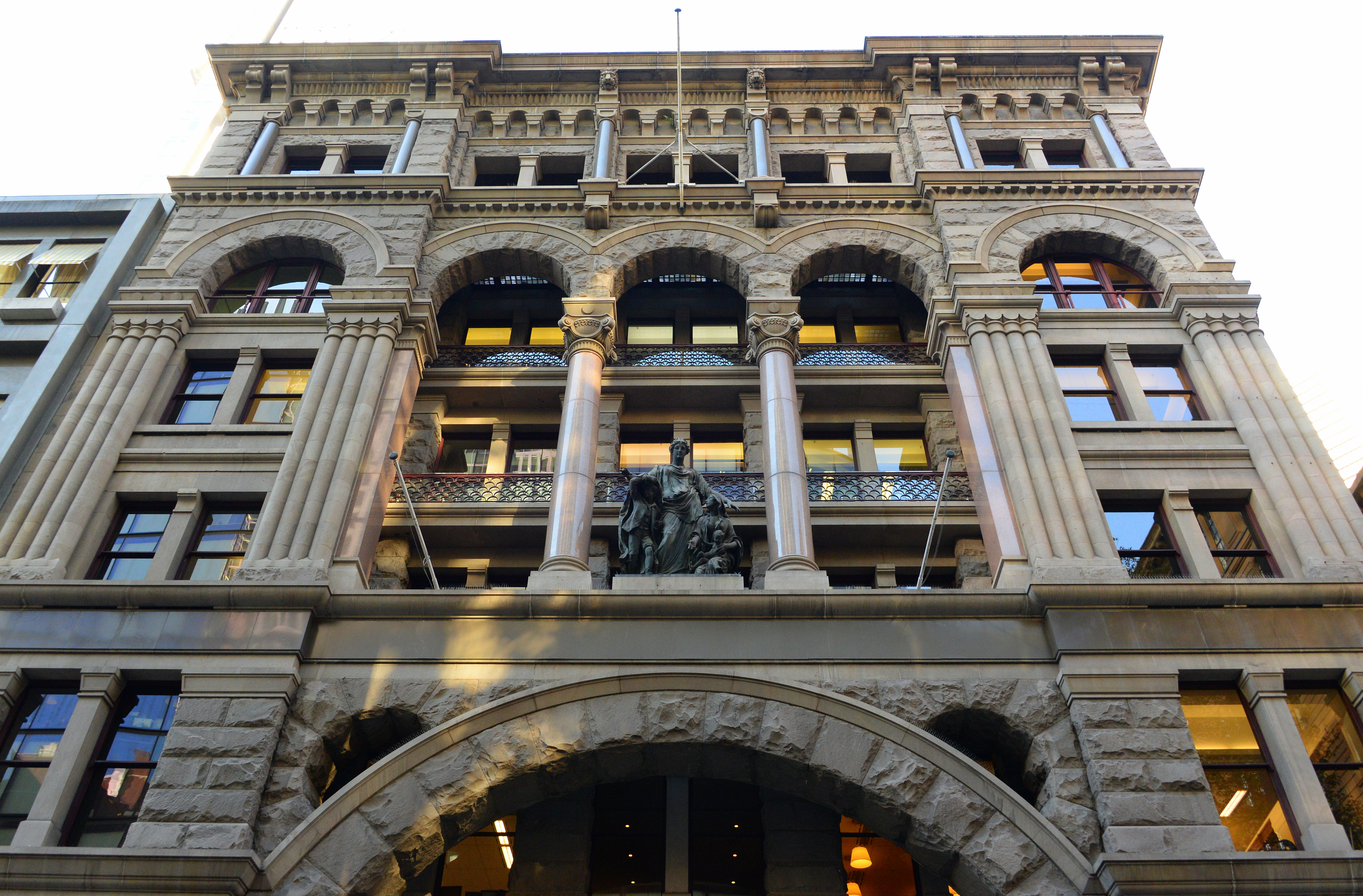 350 George Street, Sydney